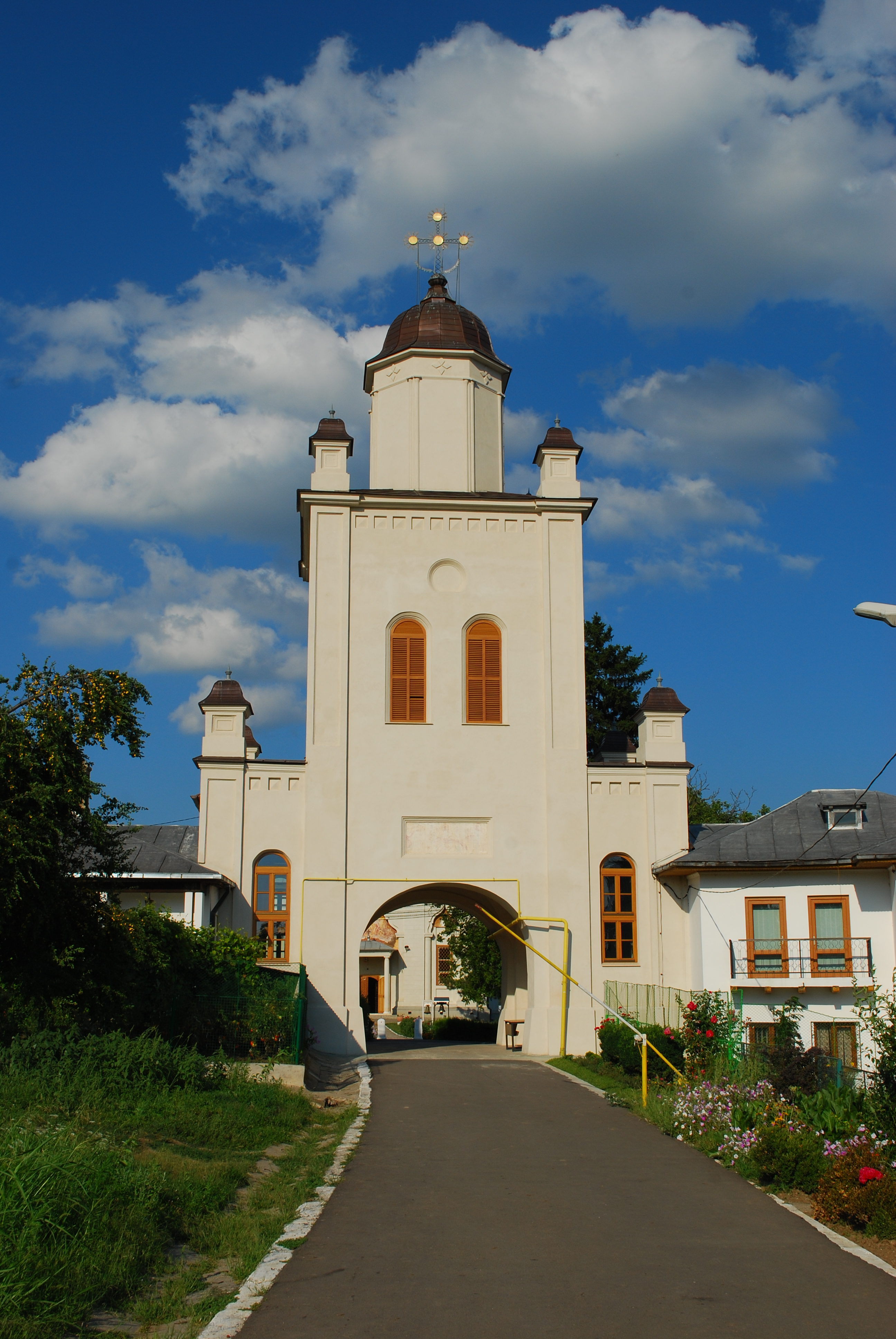 Belfry of the Pasărea monastery in Cozieni, Brăneşti commune, Ilfov County, RomaniaRomână: Turnul clopotniţei mănăstirii Pasărea din Cozieni, comuna Brăneşti, judeţul Ilfov, România